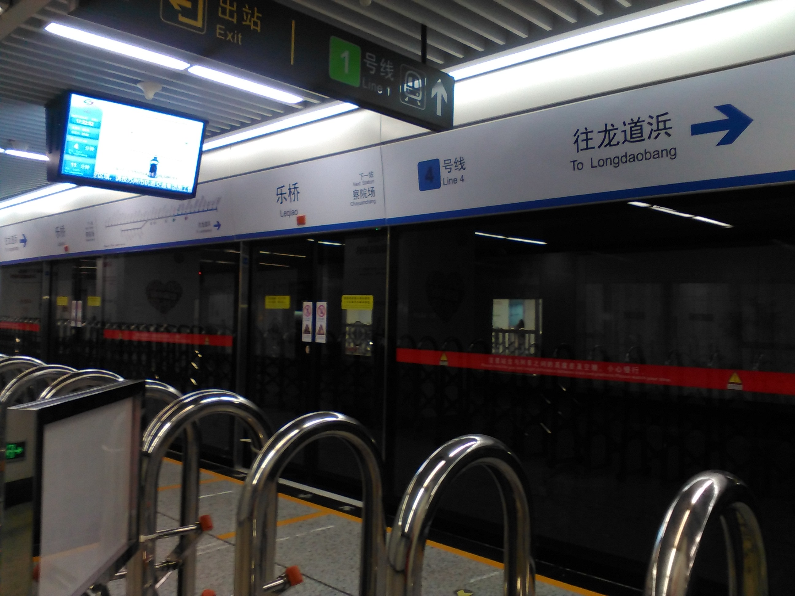 Line 4 Platform of Leqiao Station (towards Longdaobang) of Suzhou Rail Transit 中文（中国大陆）: 苏州轨道交通四号线乐桥站往龙道浜方向站台